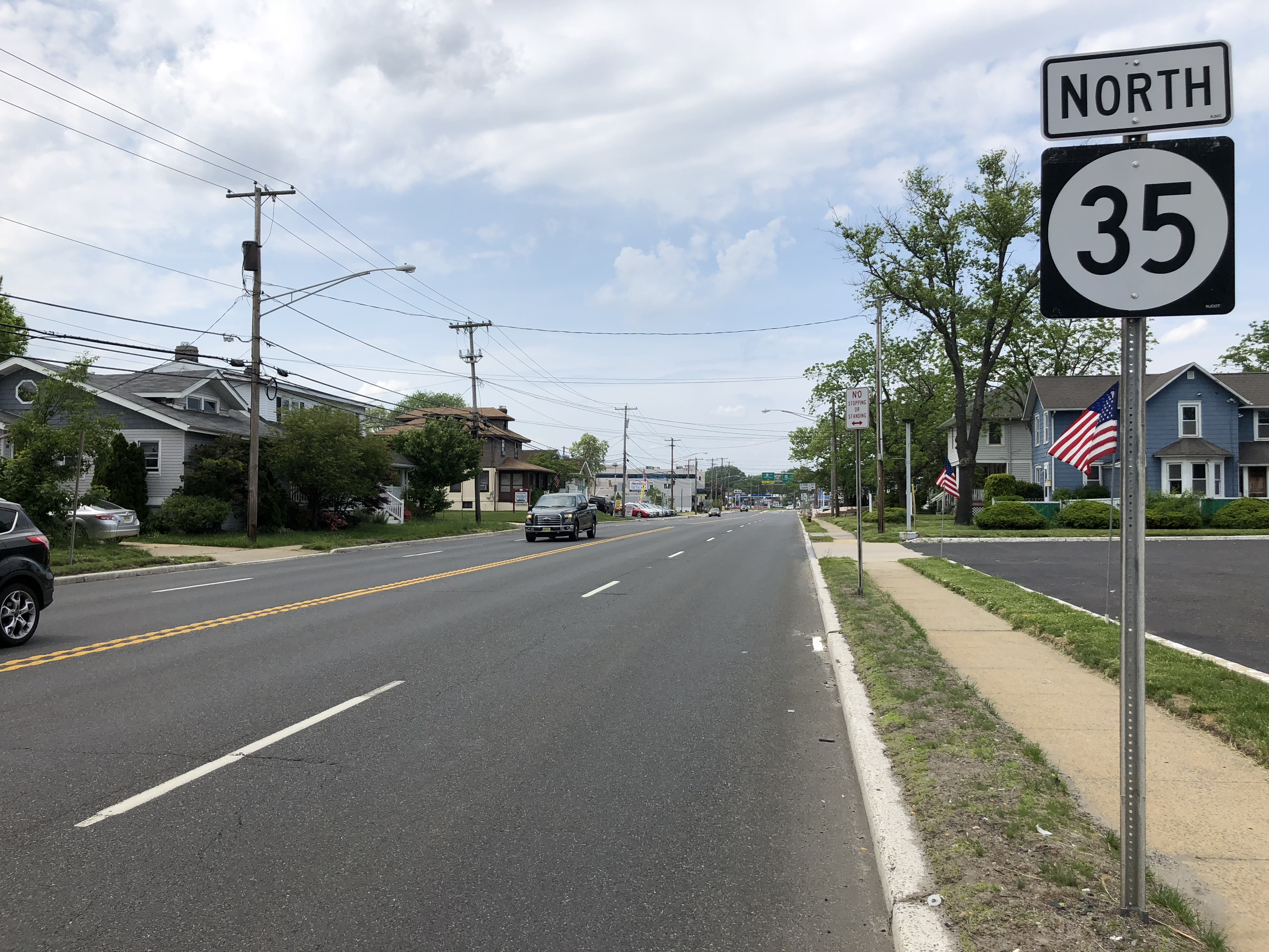 View north along New Jersey State Route 35 (Sylvania Avenue) at Steiner Avenue in Neptune City, Monmouth County, New Jersey